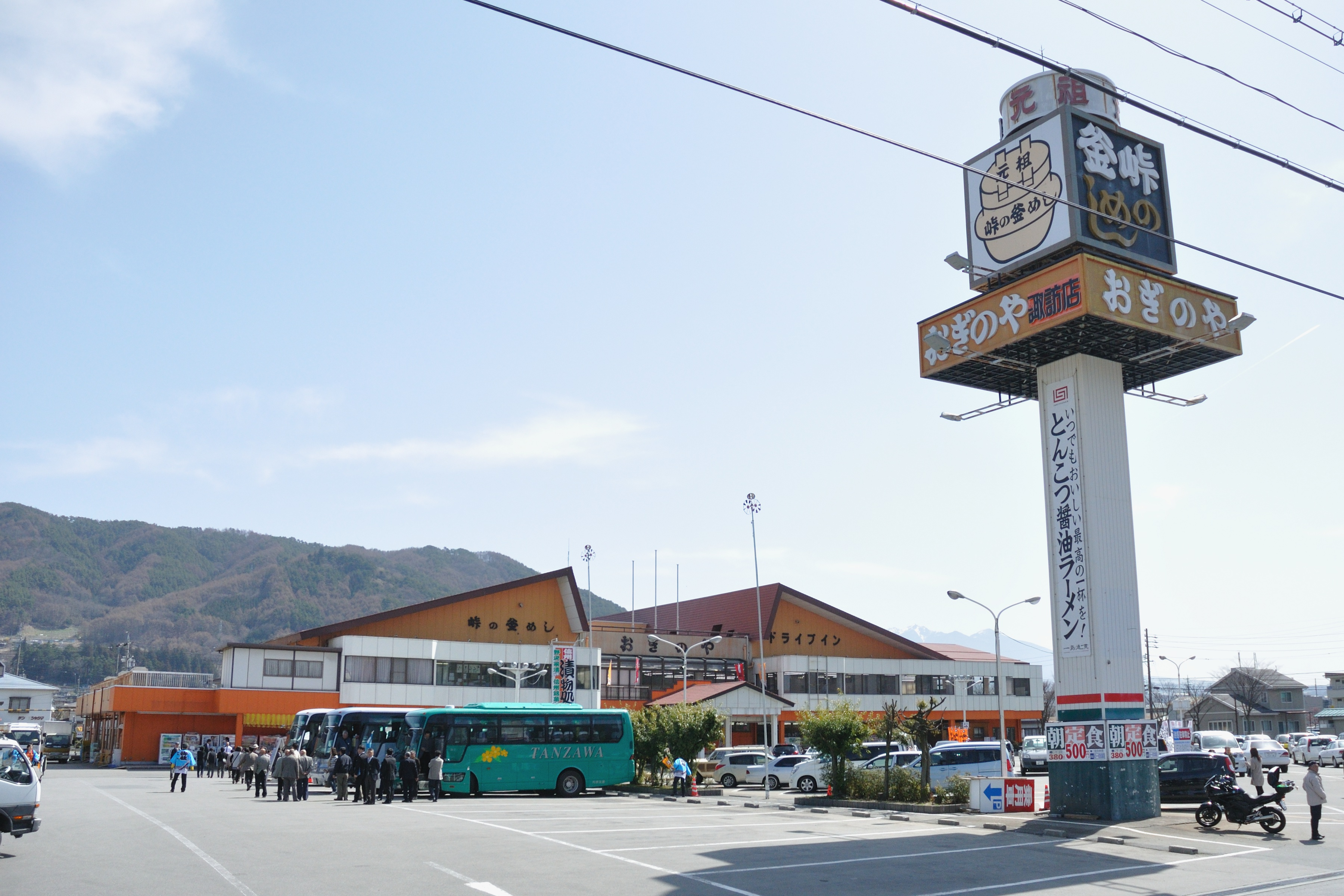 Photograph of Oginoya Drive-in Suwa Inter exterior, is Drive-in in Suwa City, Nagano Prefecture. photo date and time 10:10 April 10, 2010